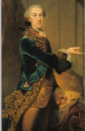 William I, Elector of Hesse (1743-1821) wearing the danish Order of the Elephant